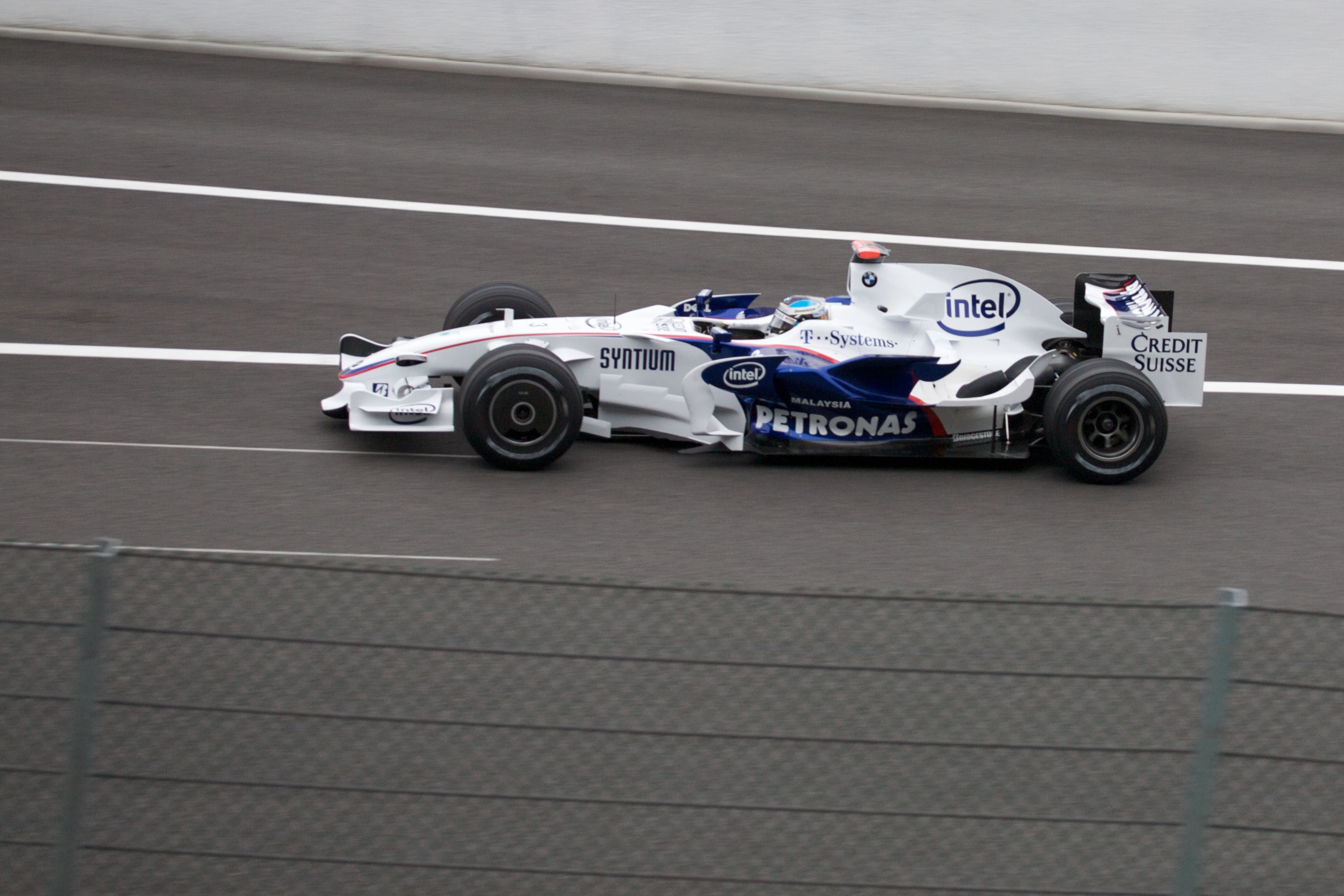 Nick Heidfeld driving for BMW Sauber at the 2008 Belgian Grand Prix.